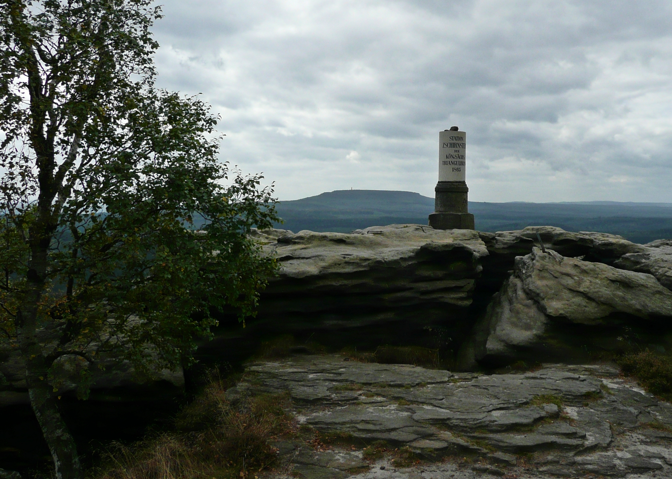 triangulation point (1865) on top of the Großer Zschirnstein (561 m) in the Saxon Switzerland with the Děčínský Sněžník (722 m) in the background.